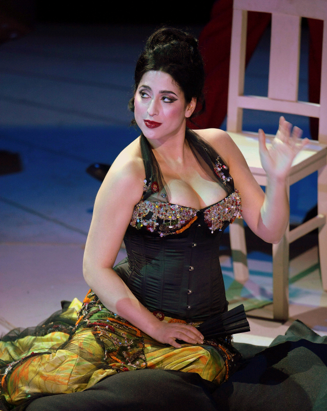 Picture taken of Israeli Soprano Riki Guy as Giulietta during dress rehearsal of Les Contes d’Hoffmann at Lisbon Opera House, April 2008.